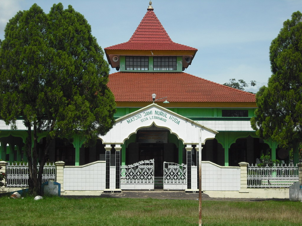 Nurul Huda Great Mosque in Lebakwangi, Kuningan, Indonesia